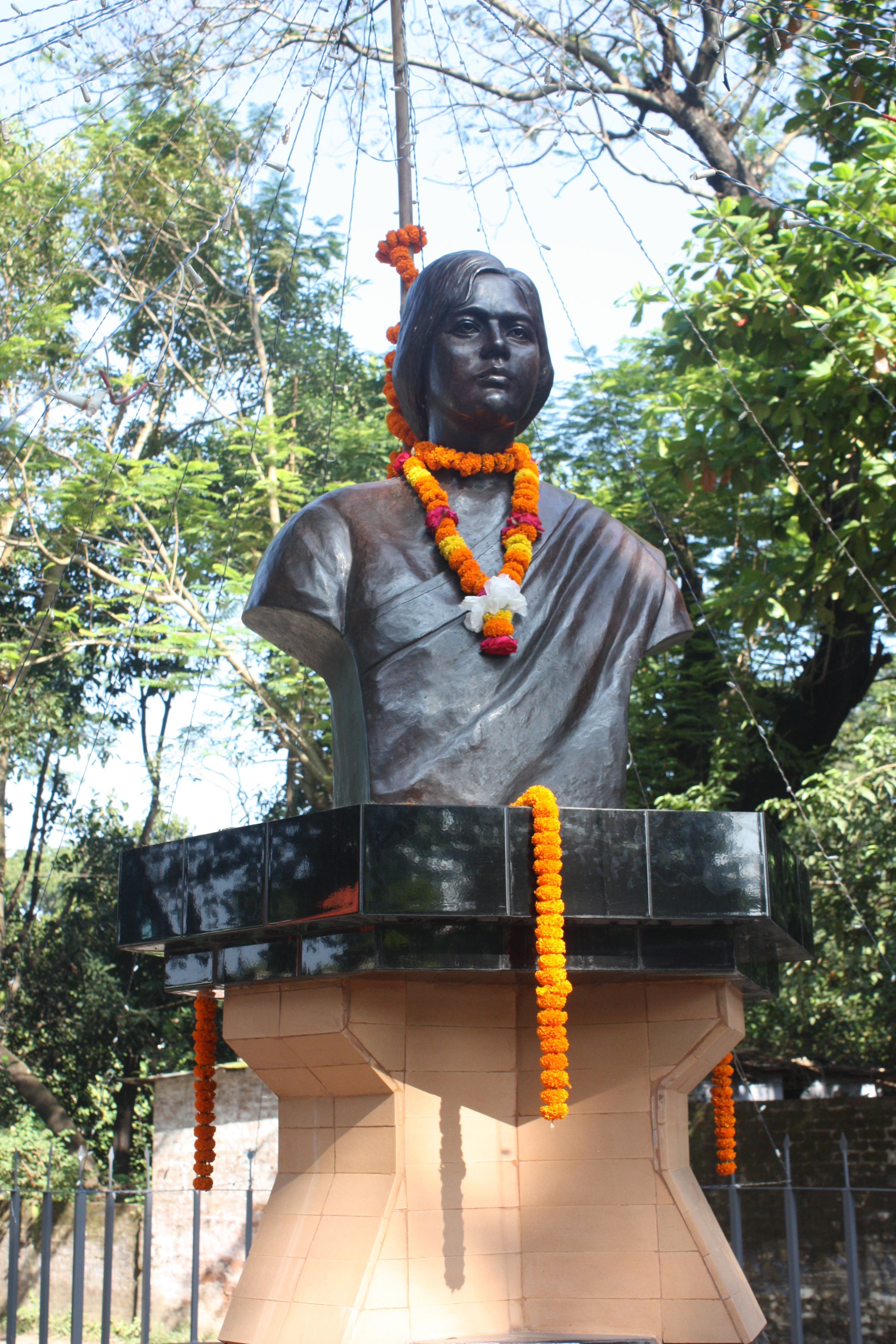 Located on the spot where Pritilata Waddedar committed suicide on 23 September 1932